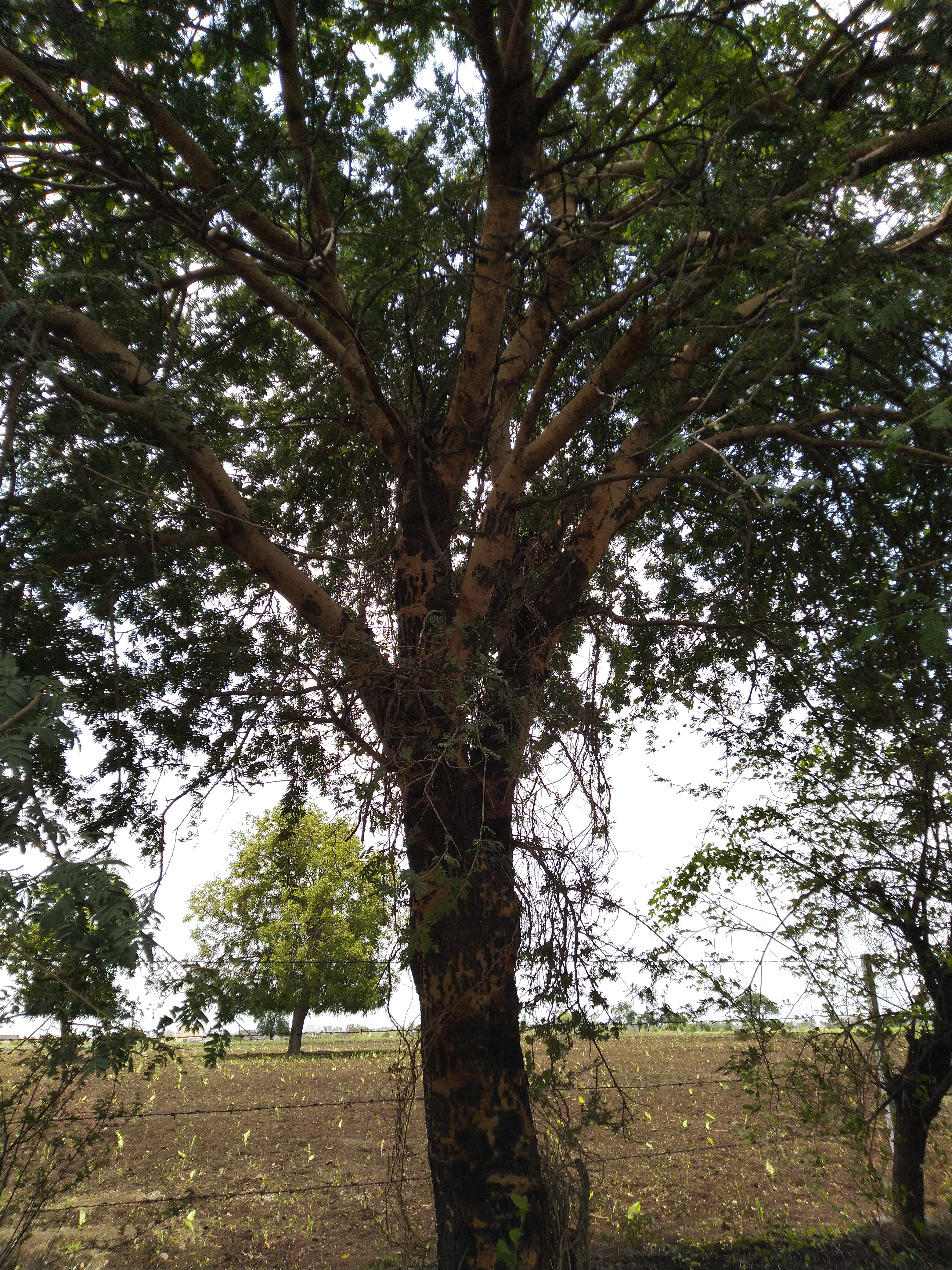 हे चित्र हिंगोली जिल्ह्यातील जामठी खुर्द गावाच्या गावठाणातलं आहे.